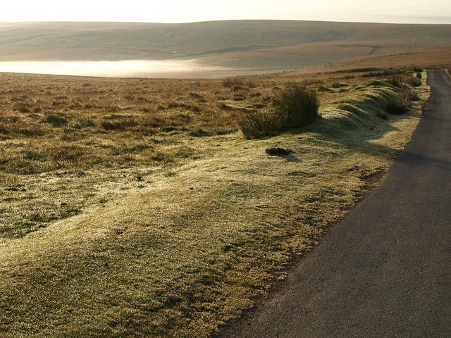 Road to Whiteworks The road near Peat Cot, with morning mist over Foxtor Mires down below.